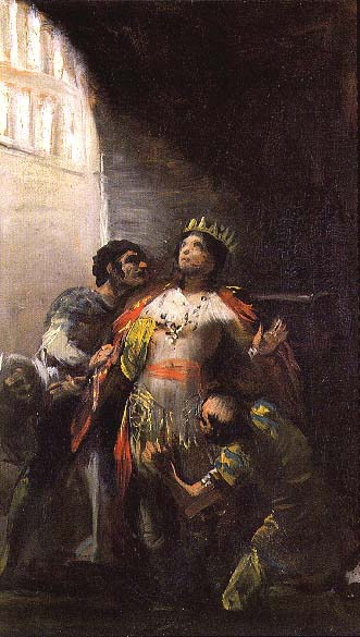 St. Hermengild at prison.